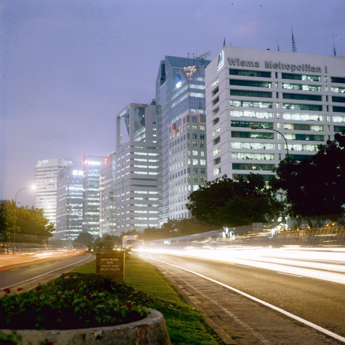 View of Sudirman Avenue in Jakarta, with a dish antenna on top of a house